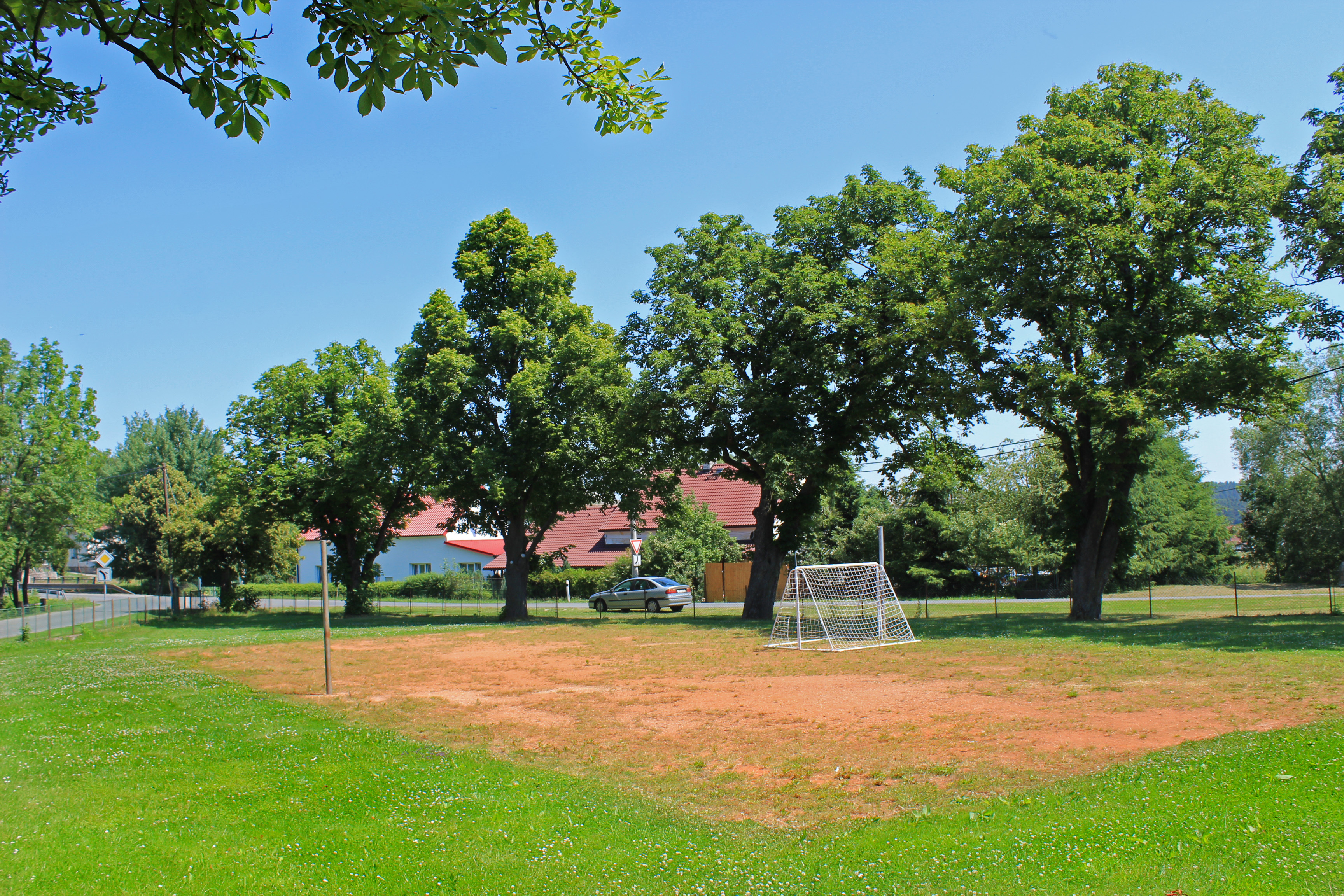 Common in Černovice, Czech Republic.